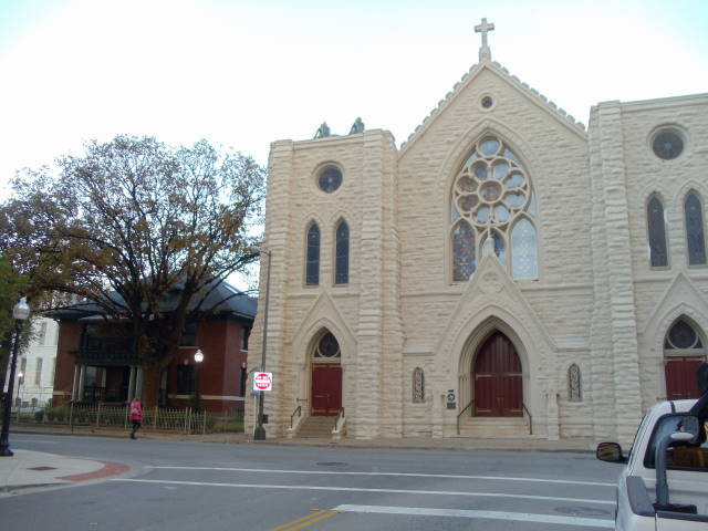 Saint Patrick Catholic Church